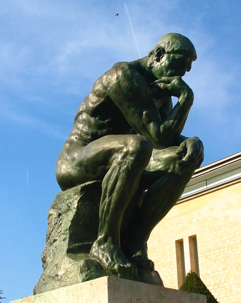 The Thinker, sculpture by Auguste Rodin Picture taken in Musee Rodin in Paris, France by wikipedian Pufacz